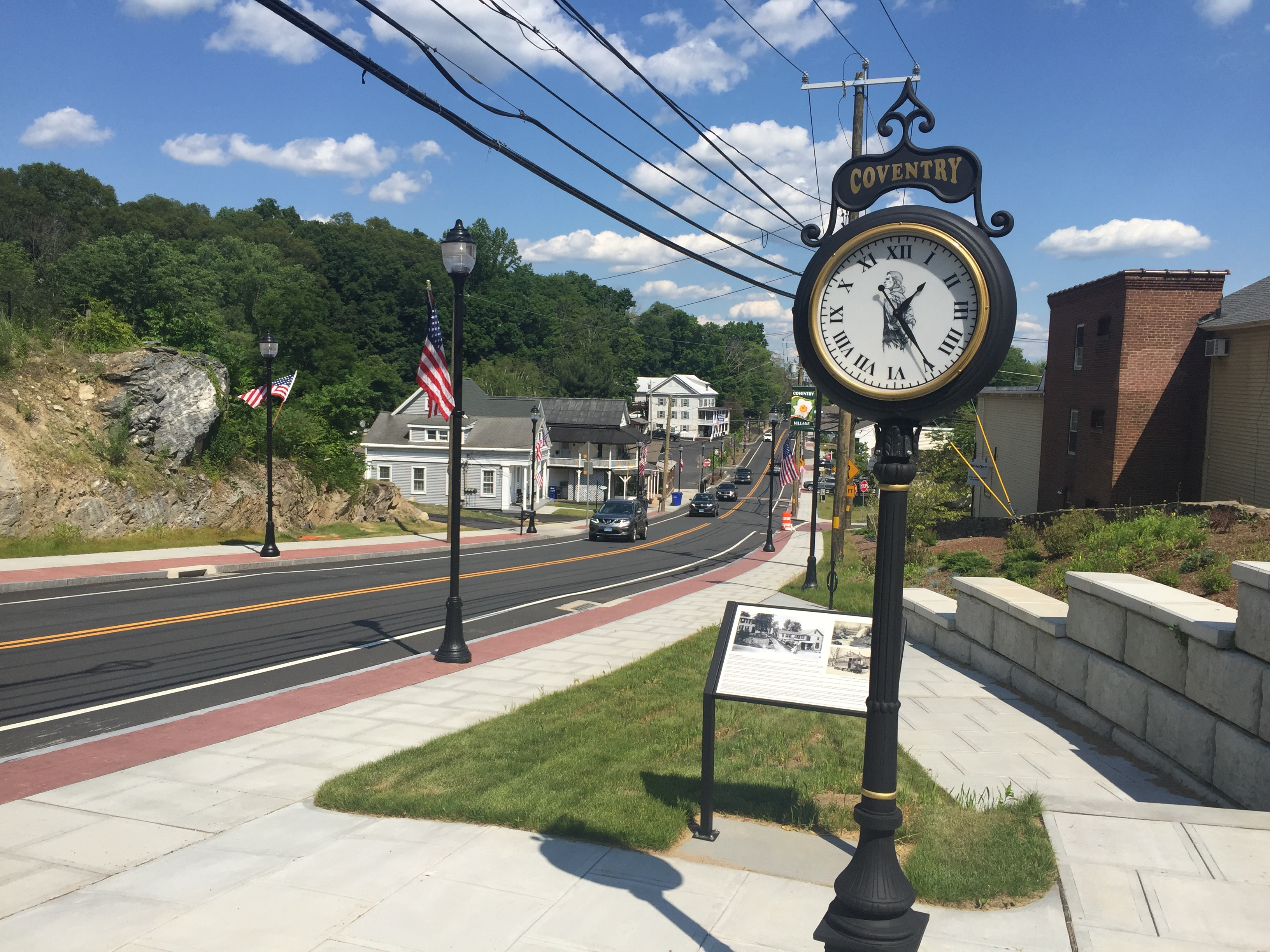 Coventry Village